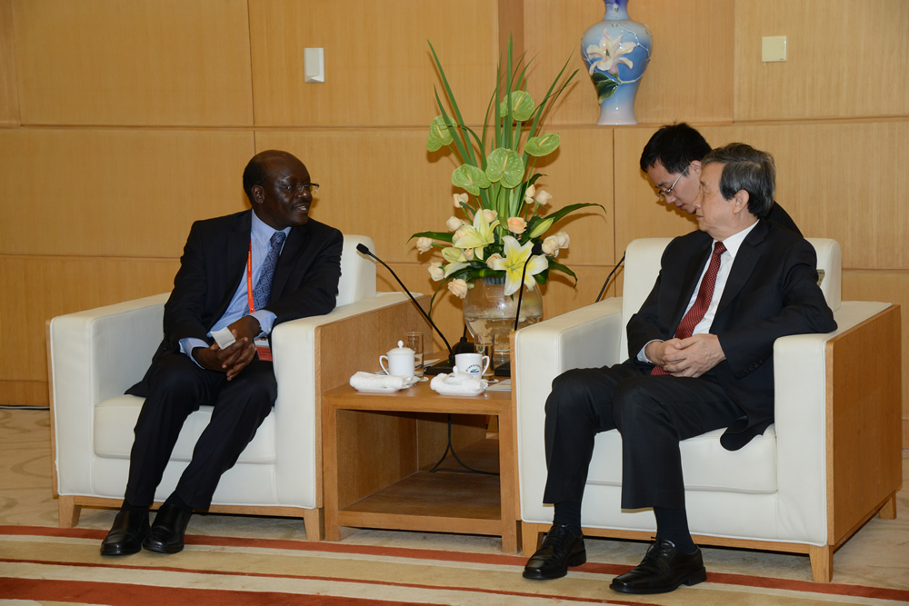 UNCTAD Secretary-General Mukhisa Kituyi meets with H.E. Mr. Ma Kai, Vice Premier of China, at the 17th China International Fair for Investment and Trade, Xiamen, China